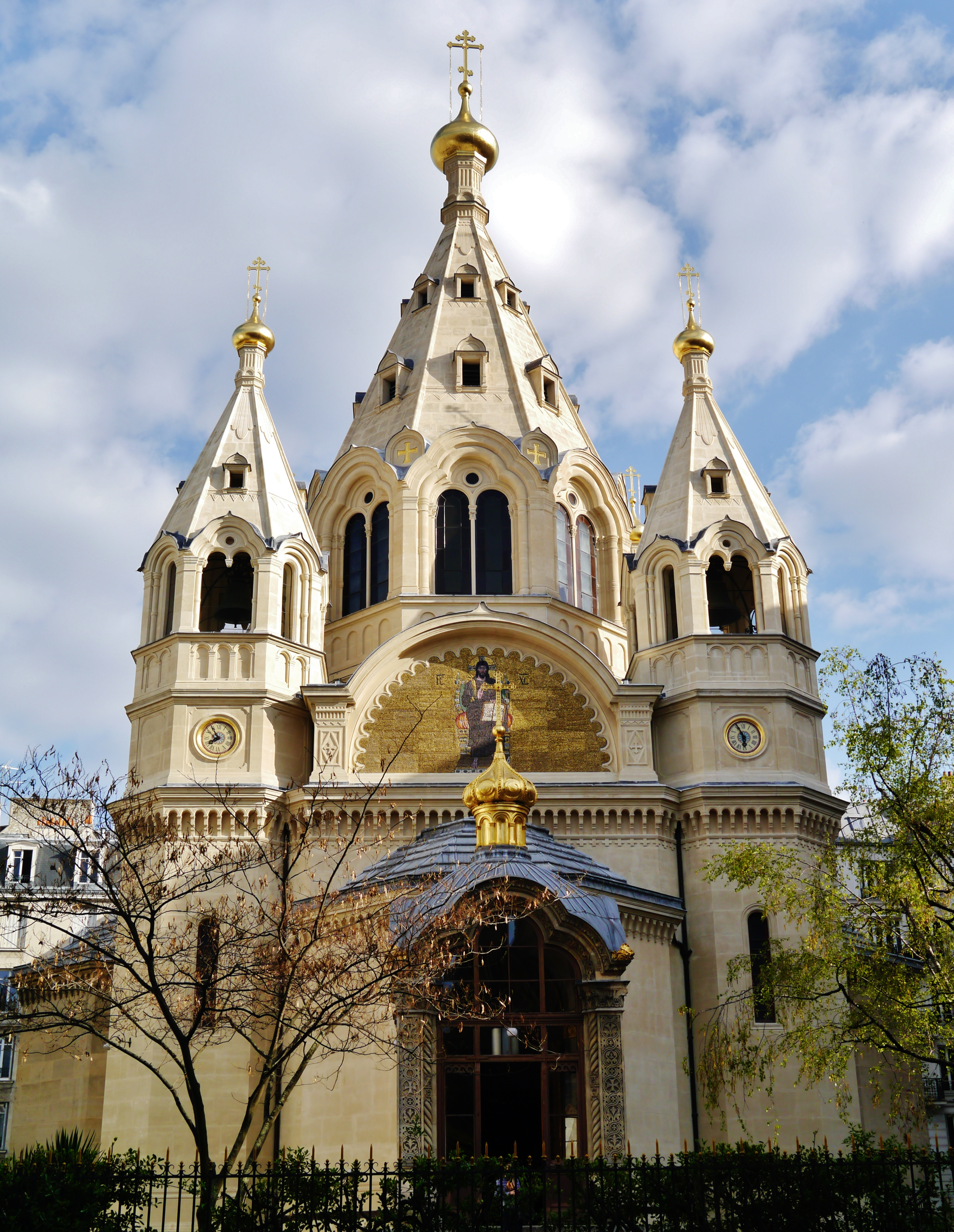 Facade of the Russian Orthodox Cathedral of St. Alexander Nevsky, Paris, Region of Île-de-France, France